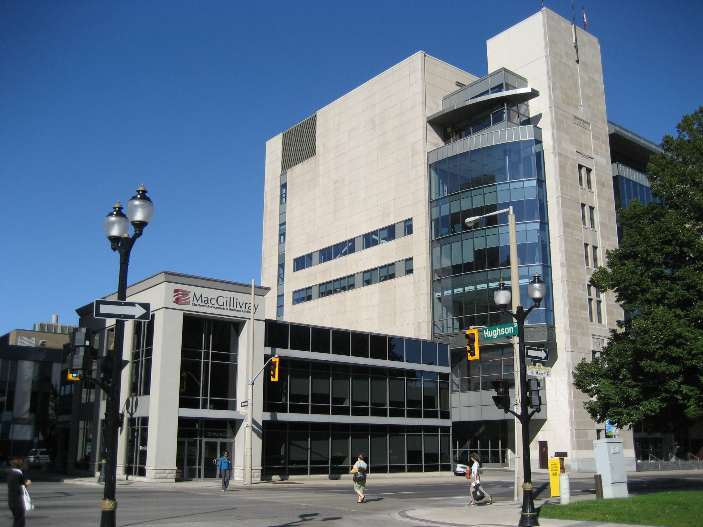 John Sopinka Courthouse, Main East & Hughson, Hamilton, Canada.